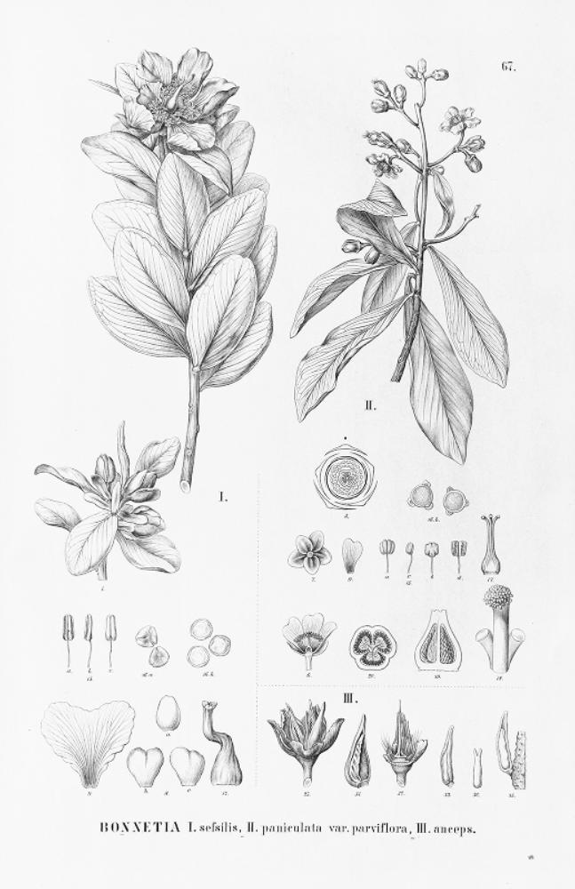 Illustration of Bonnetia sessilis and Bonnetia paniculata